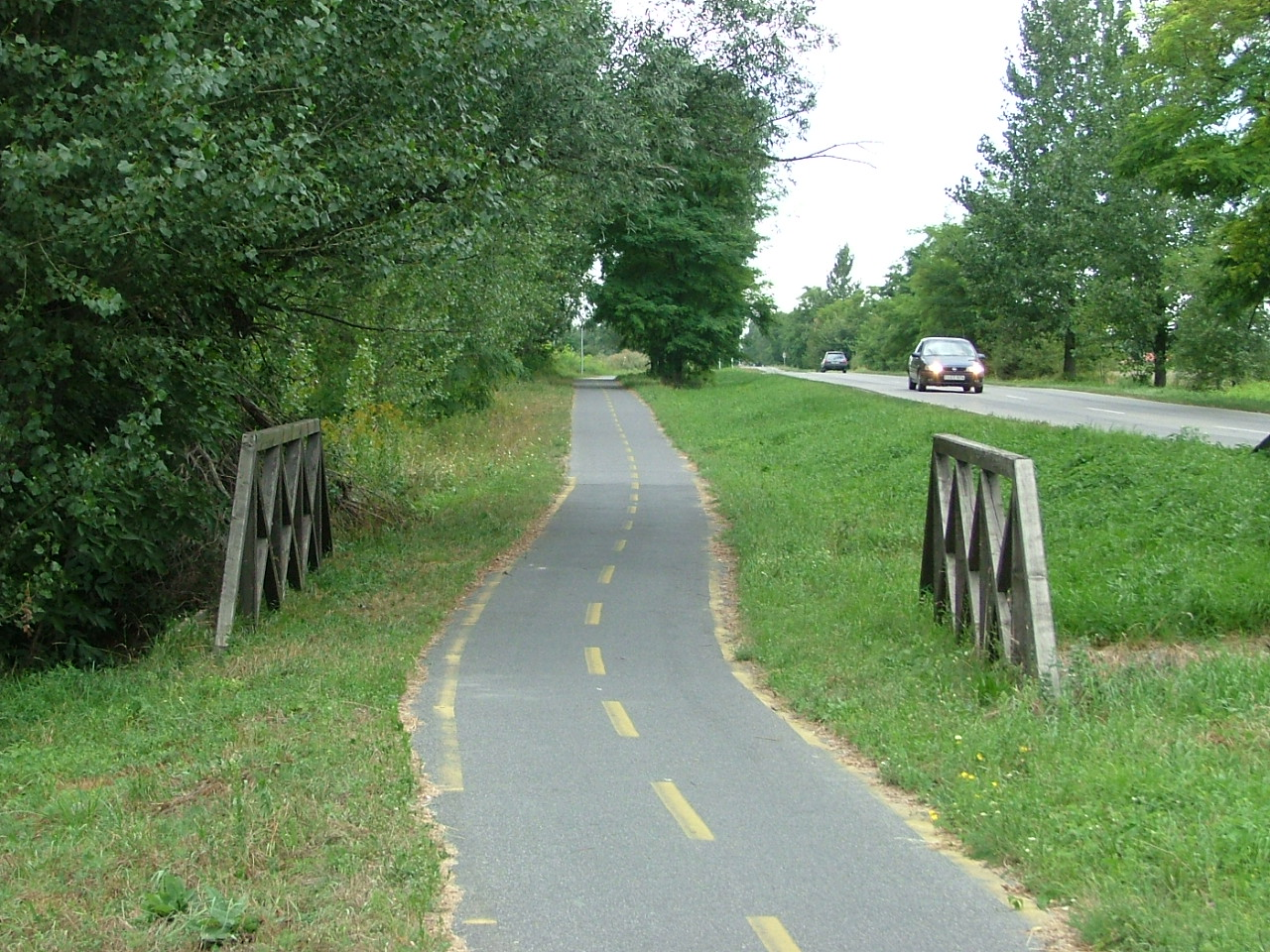 The Szigetköz Bikeway between Győrzámoly and Győrújfalu; Hungary